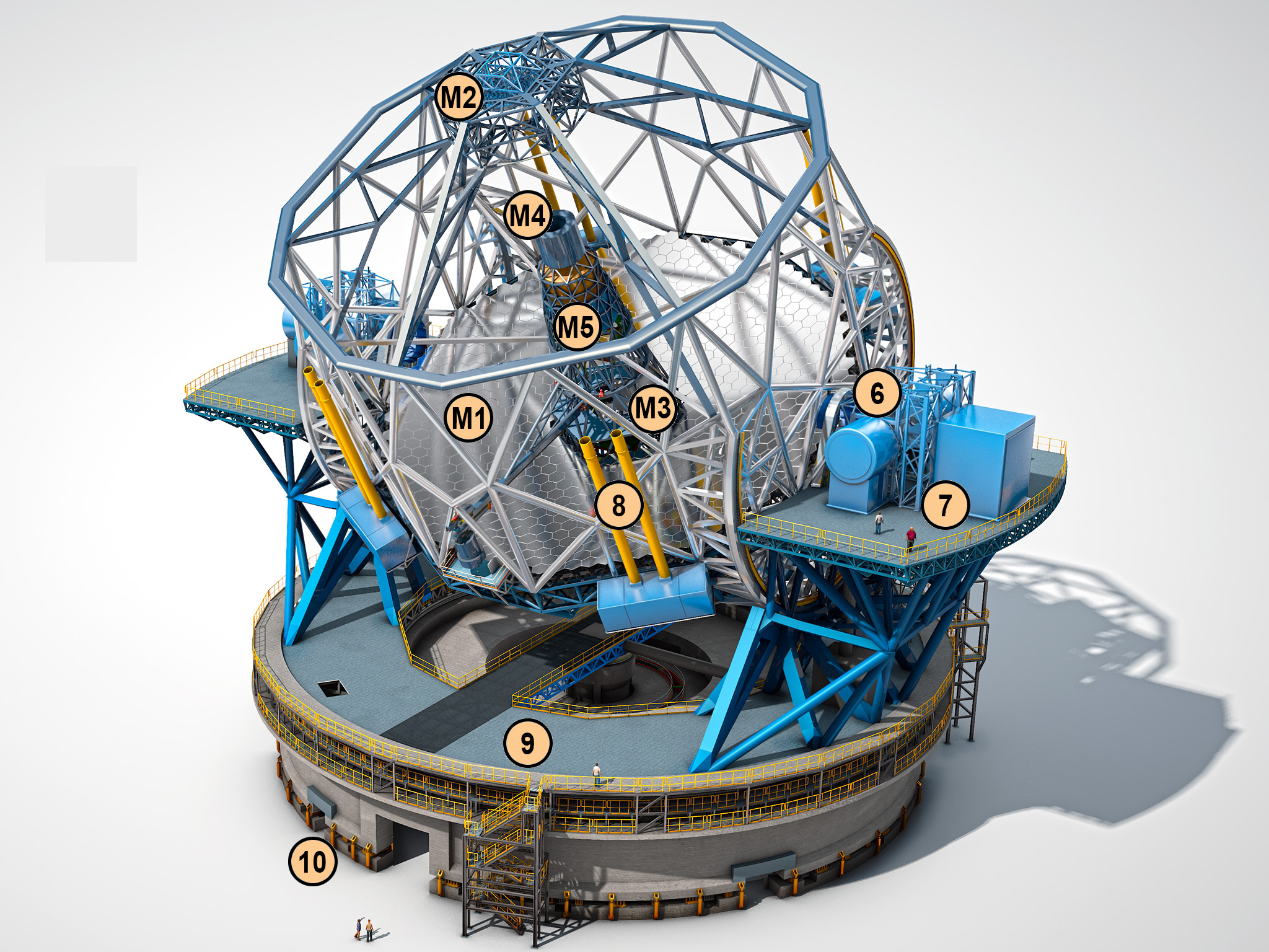 The European Extremely Large Telescope (E-ELT), with a main mirror 39 metres in diameter, will be the world’s biggest eye on the sky when it becomes operational early in the next decade. The E-ELT will tackle the biggest scientific challenges of our time, and aim for a number of notable firsts, including tracking down Earth-like planets around other stars in the “habitable zones” where life could exist — one of the Holy Grails of modern observational astronomy. The telescope design itself is revolutionary and is based on a novel five-mirror scheme that results in exceptional image quality. The primary mirror consists of almost 800 segments, each 1.4 metres wide, but only 50 mm thick. The optical design calls for an immense secondary mirror 4.2 metres in diameter, bigger than the primary mirrors of any of ESO's telescopes at La Silla. Adaptive mirrors are incorporated into the optics of the telescope to compensate for the fuzziness in the stellar images introduced by atmospheric turbulence. One of these mirrors is supported by more than 6000 actuators that can distort its shape a thousand times per second. The telescope will have several science instruments. It will be possible to switch from one instrument to another within minutes. The telescope and dome will also be able to change positions on the sky and start a new observation in a very short time. The very detailed design for the E-ELT shown here is preliminary.